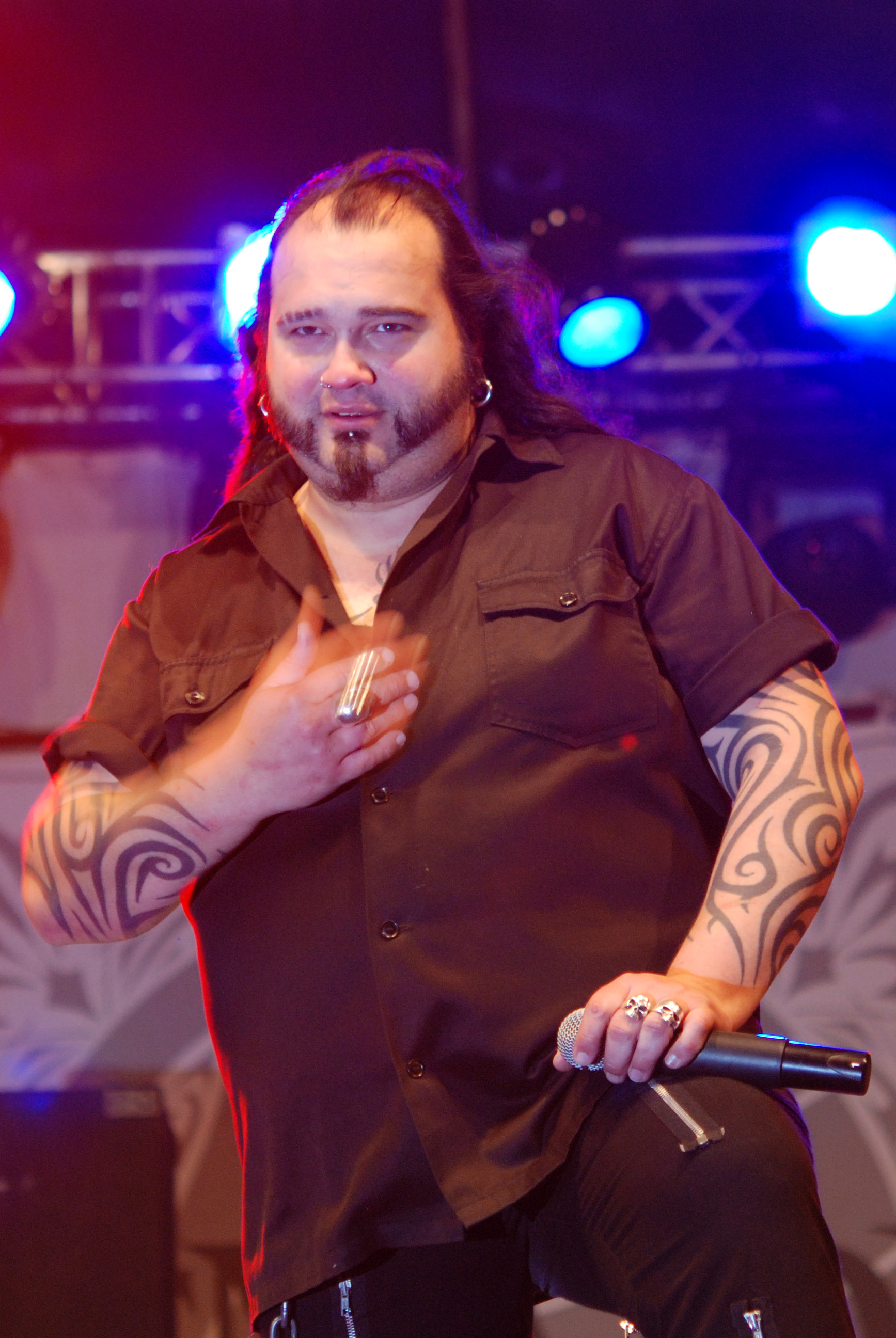 This photo was made in cooperation with CASTLE PARTY PRODUCTIONS in Bolków (webpage)